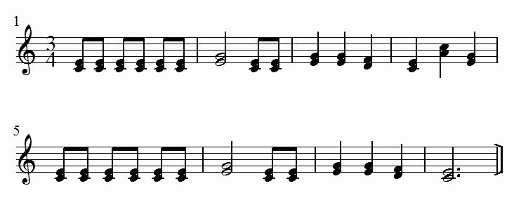 Notation: Schusterterzen